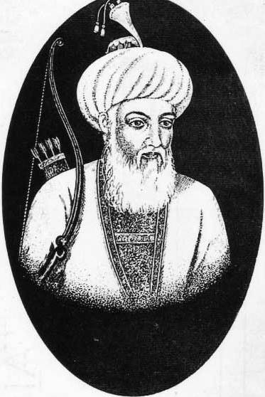 Sultan Shahabuddin of Ghor